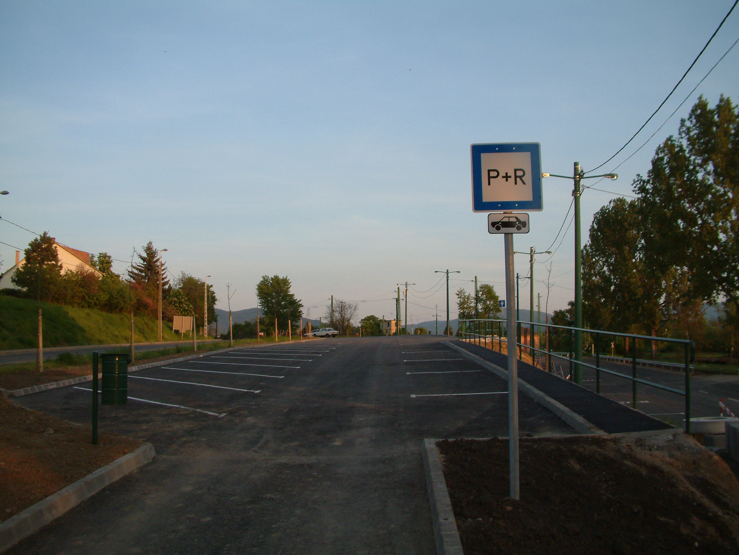 Park and Ride at Szob railway station